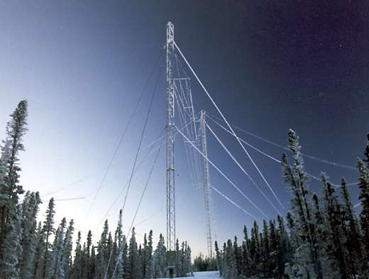 The HAARP HF Ionosonde Antenna